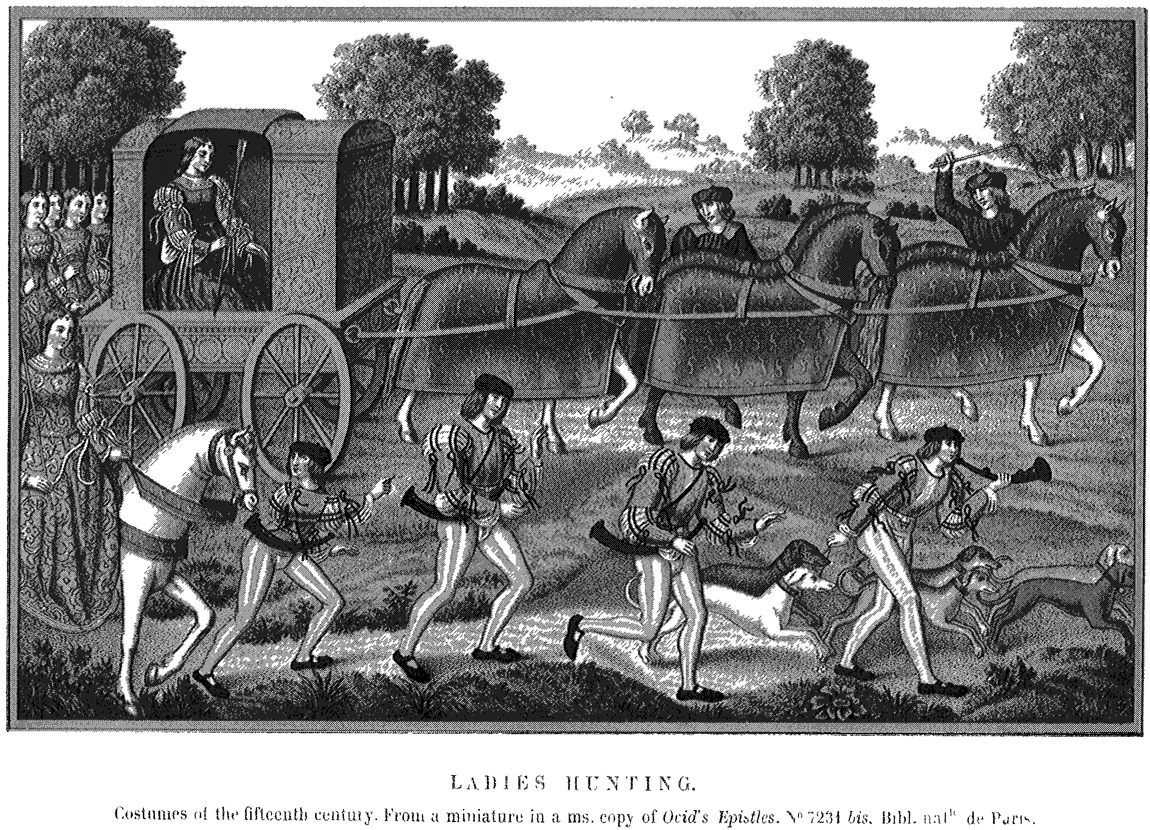 Ladies Hunting. Costumes of the fifteenth century. From a miniature in a ms. copy of Ovid's Epistles. No 7231 bis. Bibl. natle de Paris. Project Gutenberg text 10940